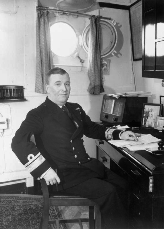 IWM caption : Rear Admiral Robert Burnett, Flag Officer commanding 10th Cruiser Squadron who flew his flag in HMS BELFAST from January 1943 to March 1944, in his cabin on board HMS BELFAST.